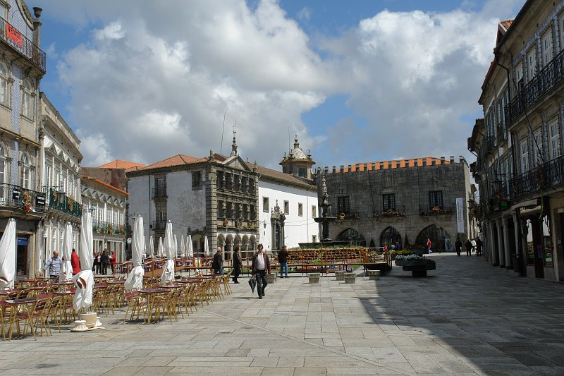 Center of the city Viana do Castelo, capital of District of Viana do Castelo, Portugal